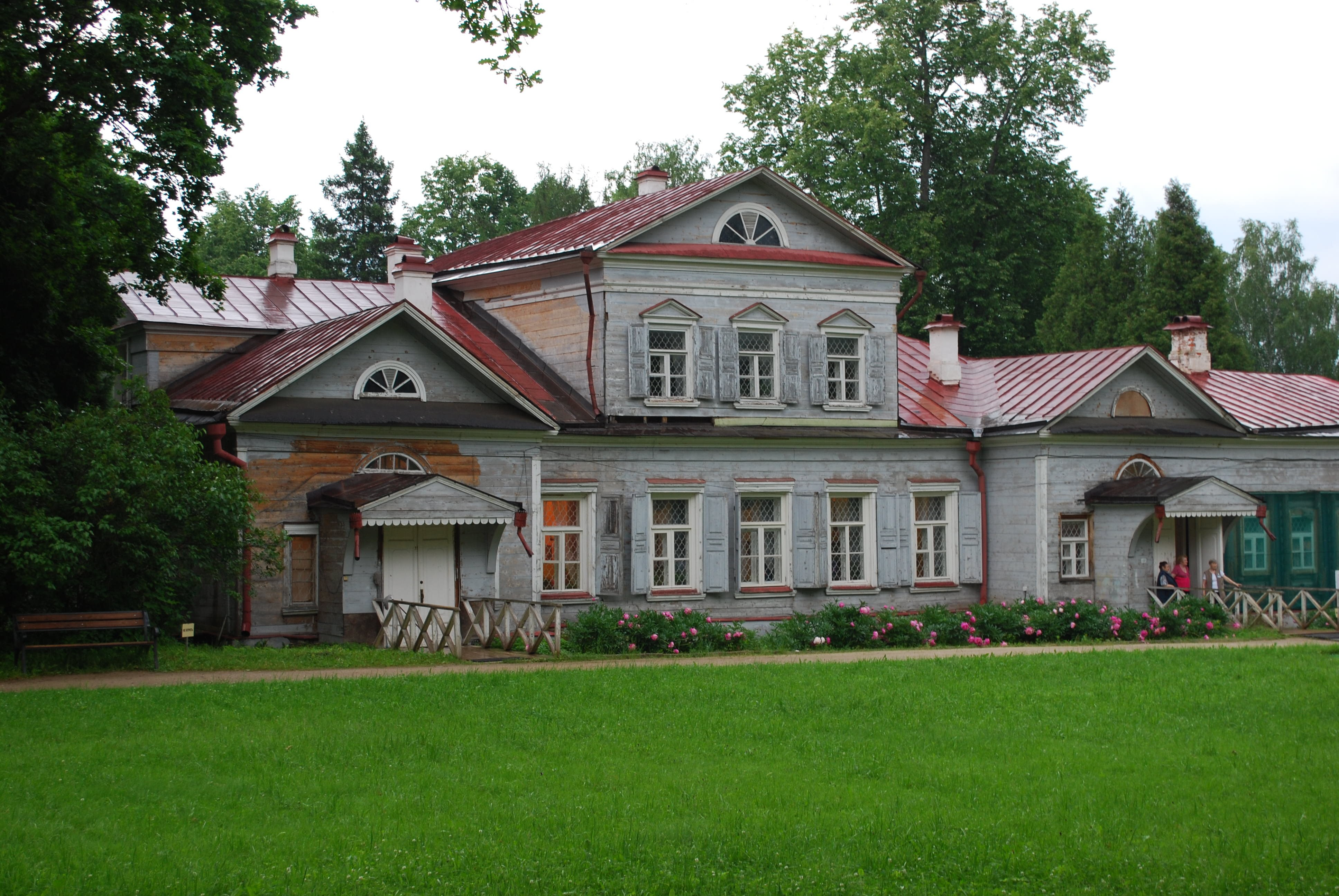 Abramtsevo Museum. Manor House.